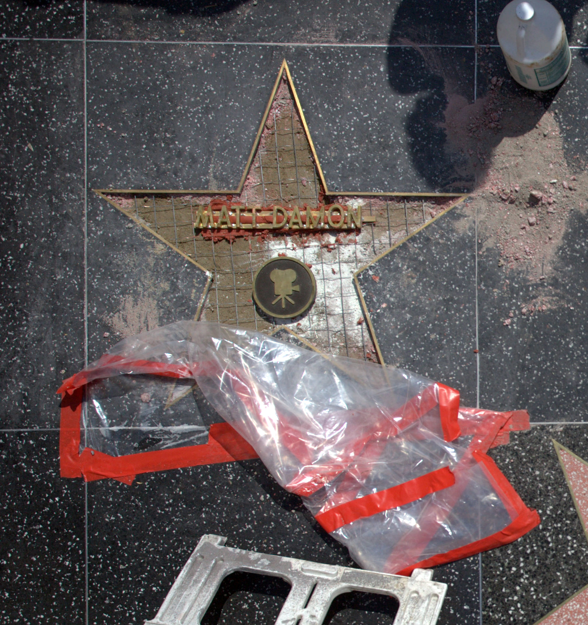 Matt Damon's star under construction on the Hollywood Walk of Fame, Hollywood California.